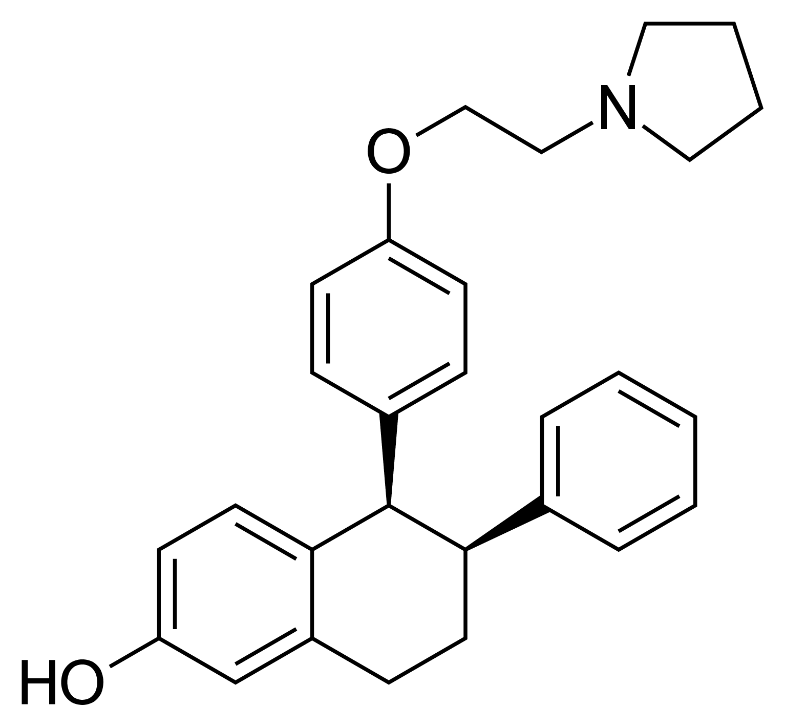 Skeletal structure of lasofoxifene